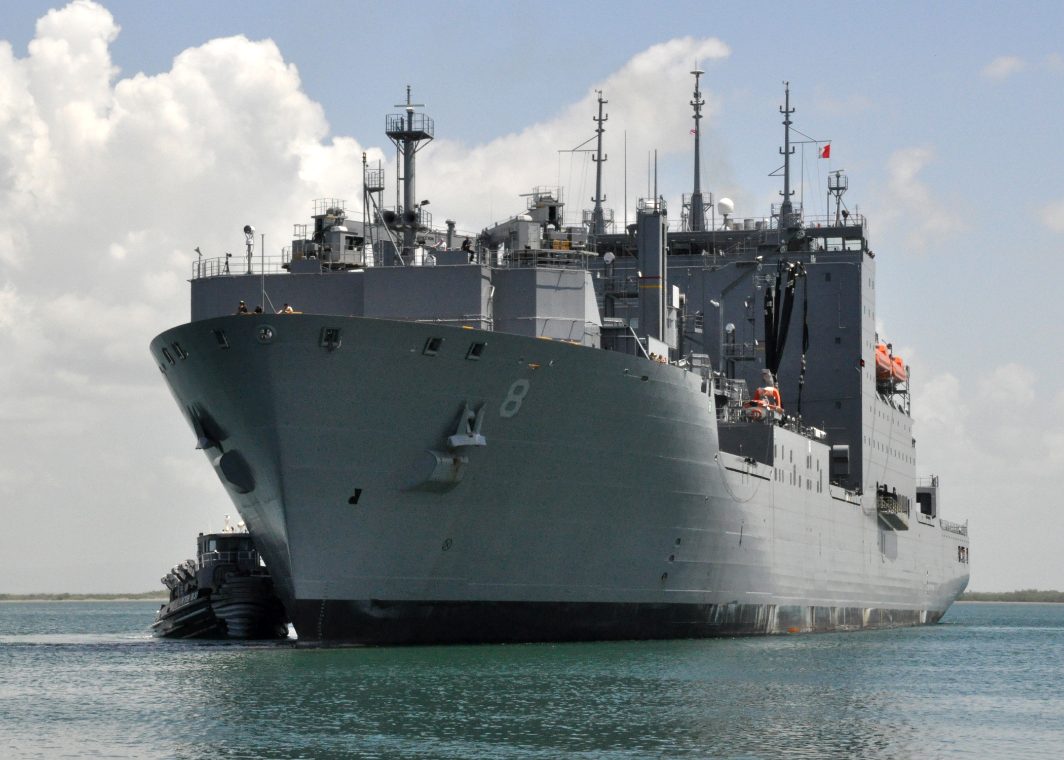 GUANTANAMO BAY, Cuba (June 9, 2010) The Military Sealift Command dry cargo and ammunition ship USNS Wally Schirra (T-AKE 8) pulls into port at Naval Station Guantanamo Bay, Cuba (GTMO). Wally Schirra pulled into GTMO to offload approximately 160 pallets of bottled water and dry food stores as part of Project Handclasp. Project Handclasp is a Navy program that coordinates transportation and delivery of humanitarian, educational and goodwill material donated to the foundation by corporations, charitable and public service organizations and private citizens throughout the United States for distribution to foreign countries who need aid. (U.S. Navy photo by Chief Mass Communication Specialist Bill Mesta/Released)